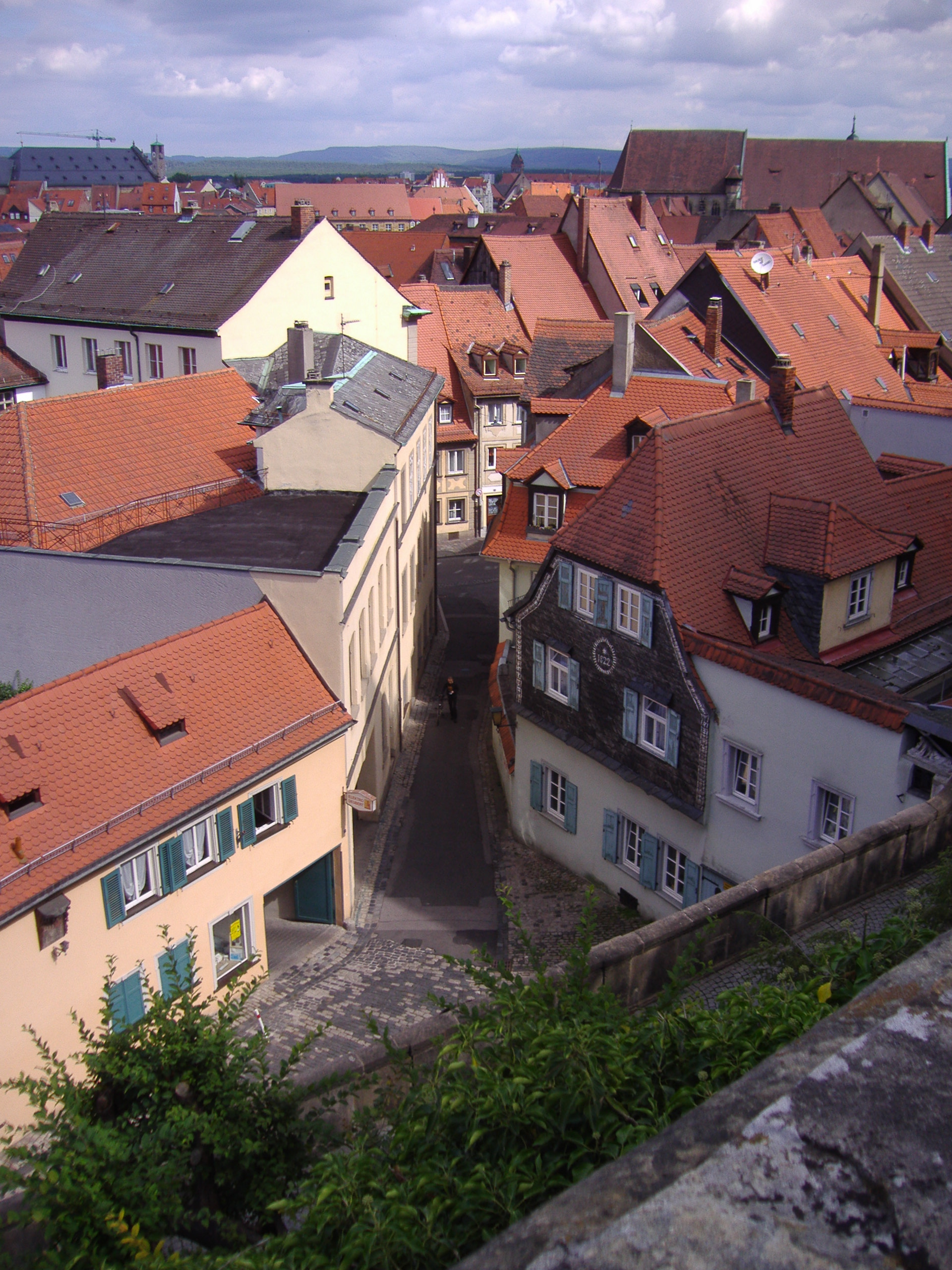 Digital Photograph of Bamberg 2006